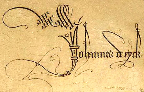 Jan van Eyck signature